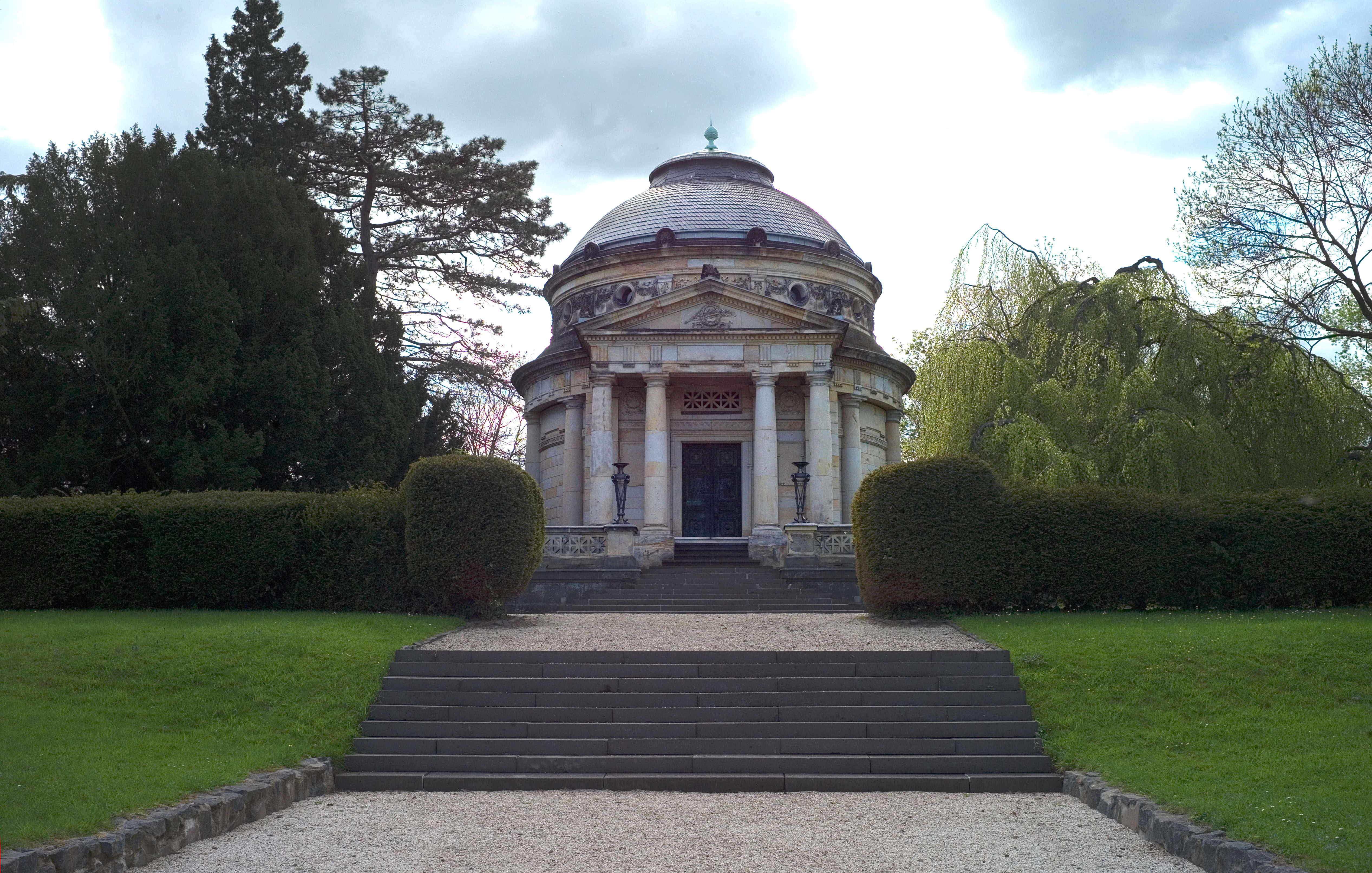 Plittersdorf (Bonn / Germany), Mausoleum Castanjen